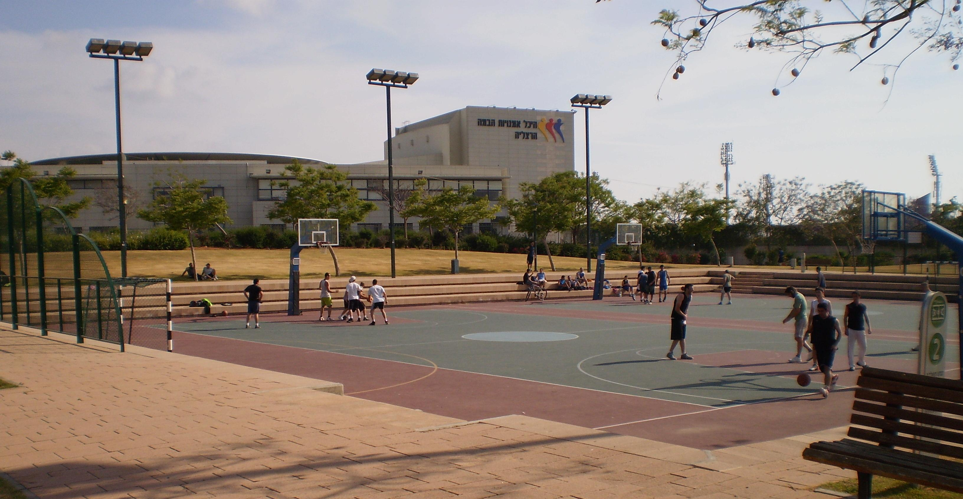 Herzliya - culture and sport - the sportek and performing arts center